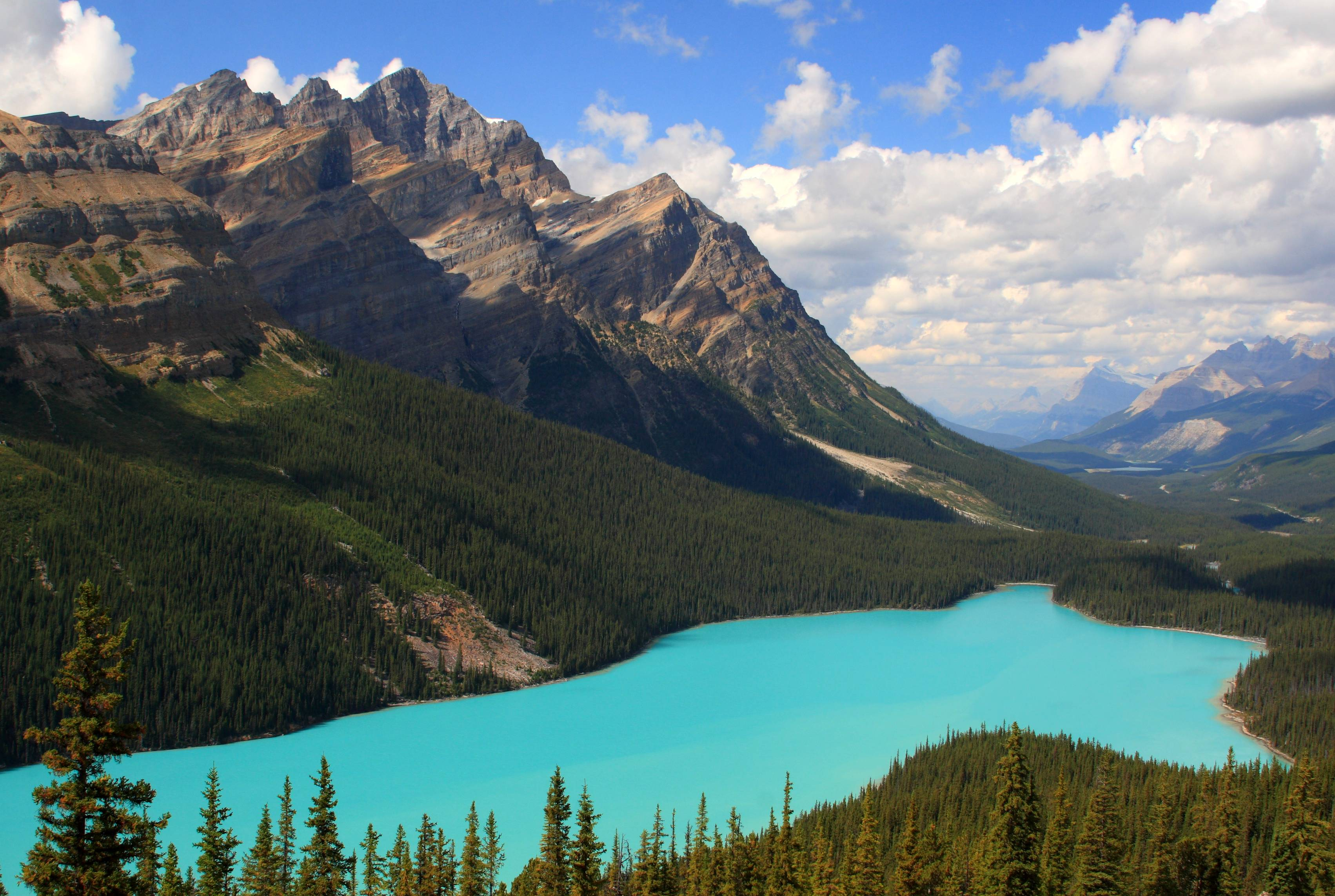 I spent a few days in Banff National Park in Alberta, Canada, in September 2009 - WOW- what a place! Incredible scenery in all directions, great short and long hikes, surprisingly few people and excellent weather. This is a must see if you have a chance.